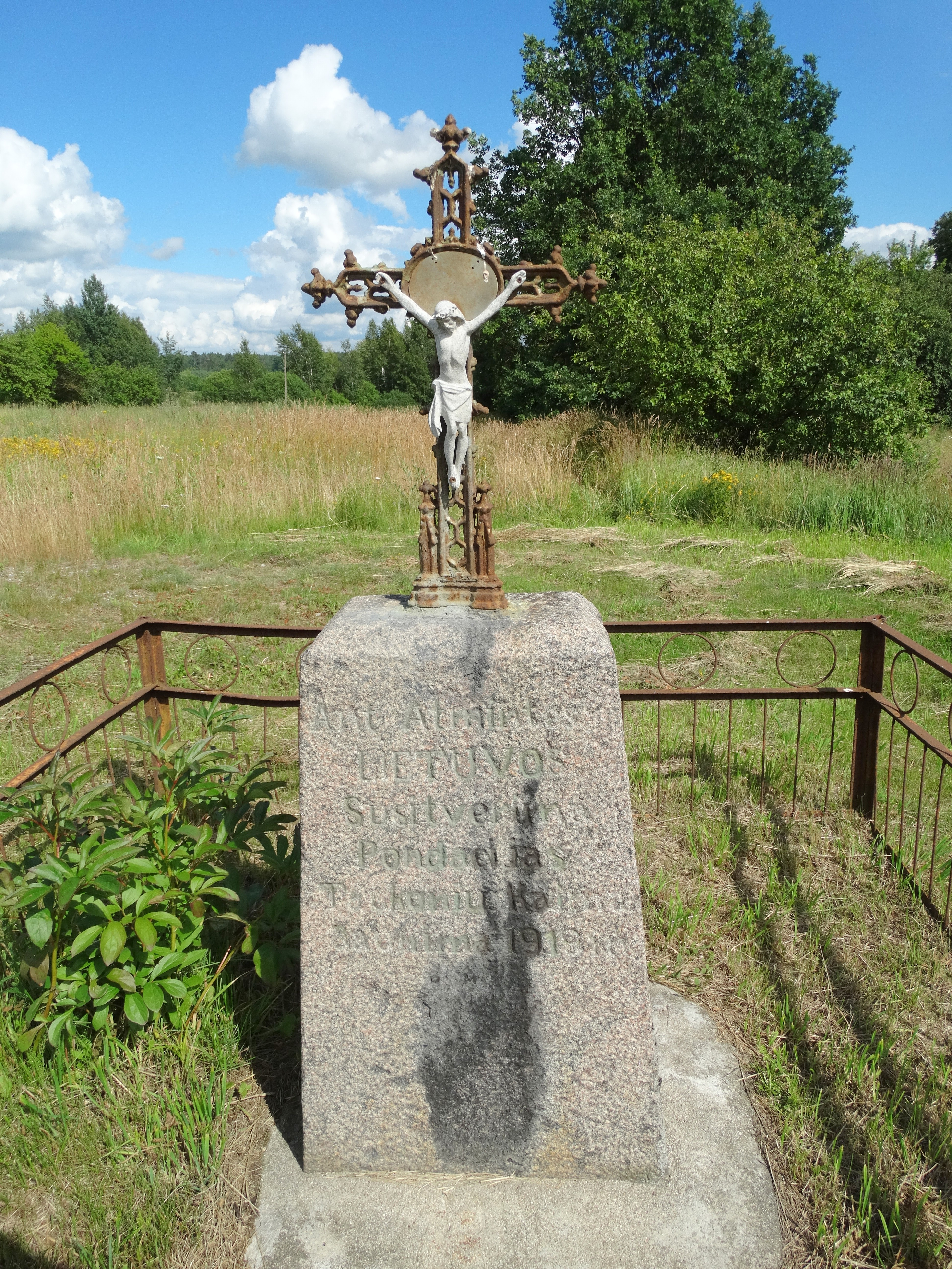 Talkoniai, Pasvalys District, Lithuania